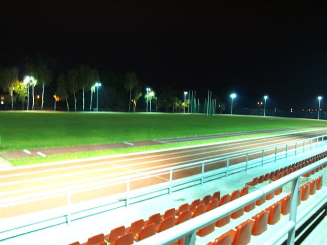 fghftqew